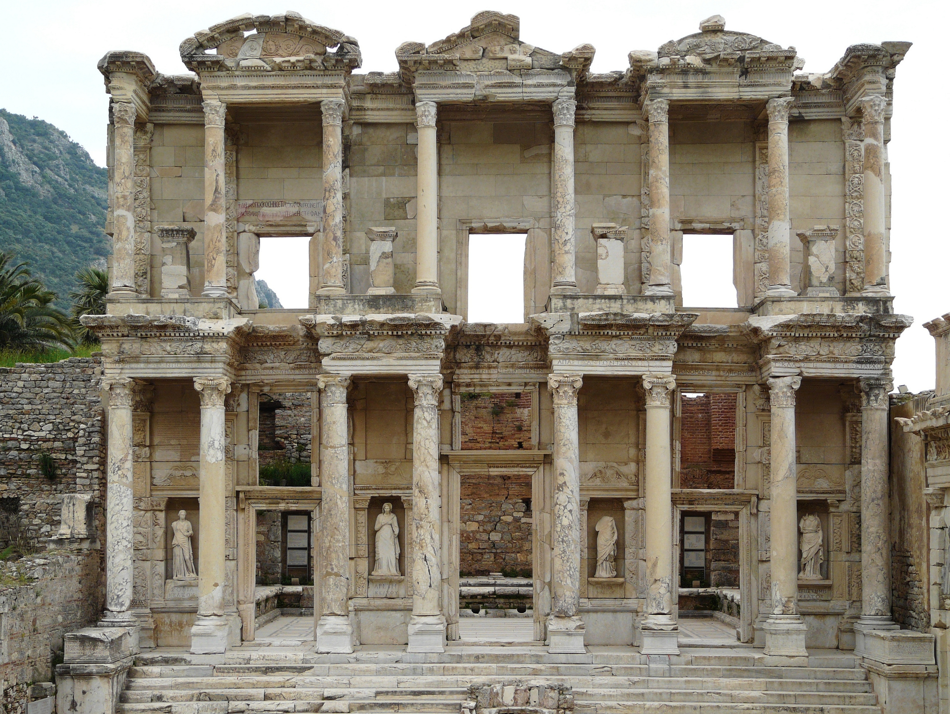 Ephesus Celsus library